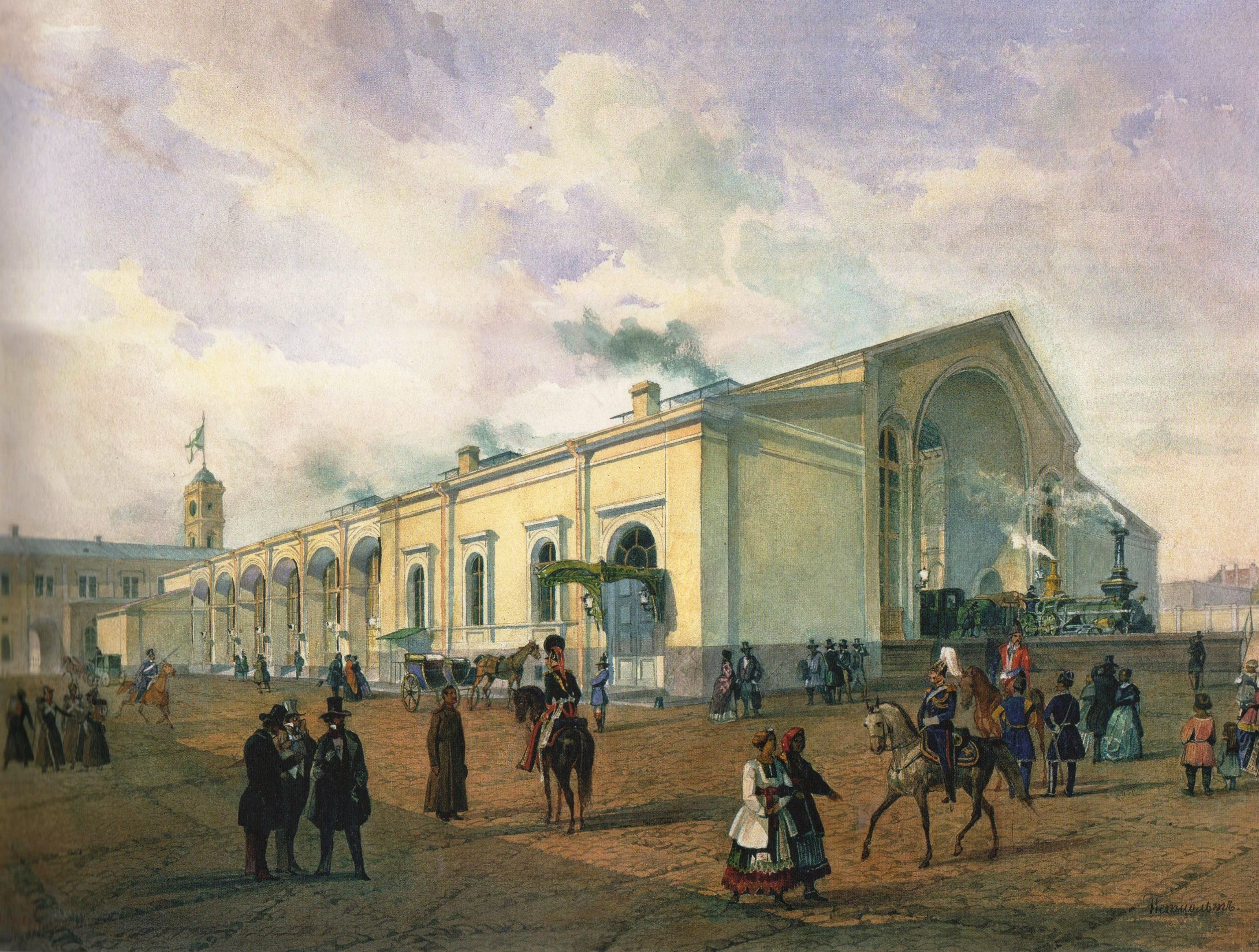 Nikolaevsky rail terminal. Saint-Petersburg